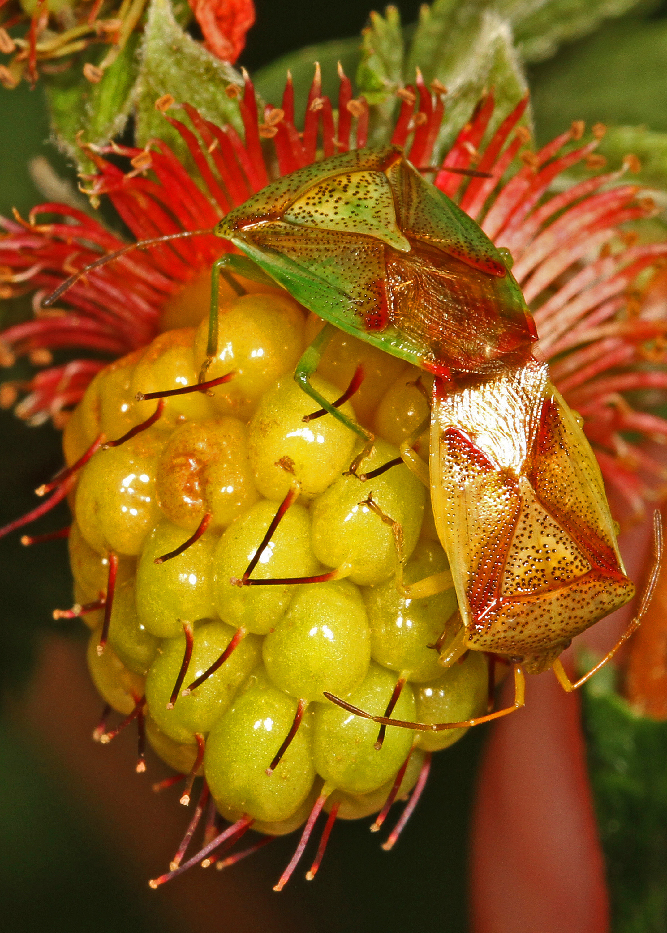 Red-cross Shield Bug - Elasmostethus cruciatus, Rockport, Washington.